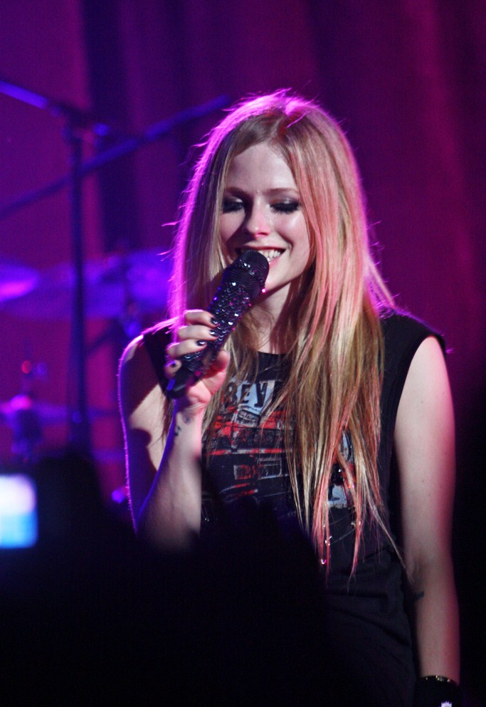 Avril Lavigne - Italian Tour 2011